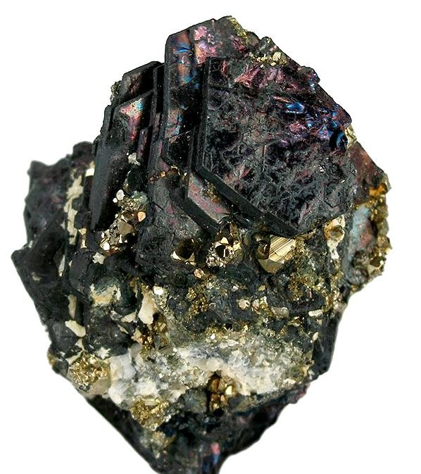 Covellite, Pyrite Locality: Leonard Mine, Butte, Butte District, Silver Bow County, Montana, USA (Locality at ) Size: 5.7 x 4.5 x 2.8 cm. Tabular, iridescent, purplish-blue, crystals of covellite to 2.5 cm across are associated with bright, golden, pyrite crystals.